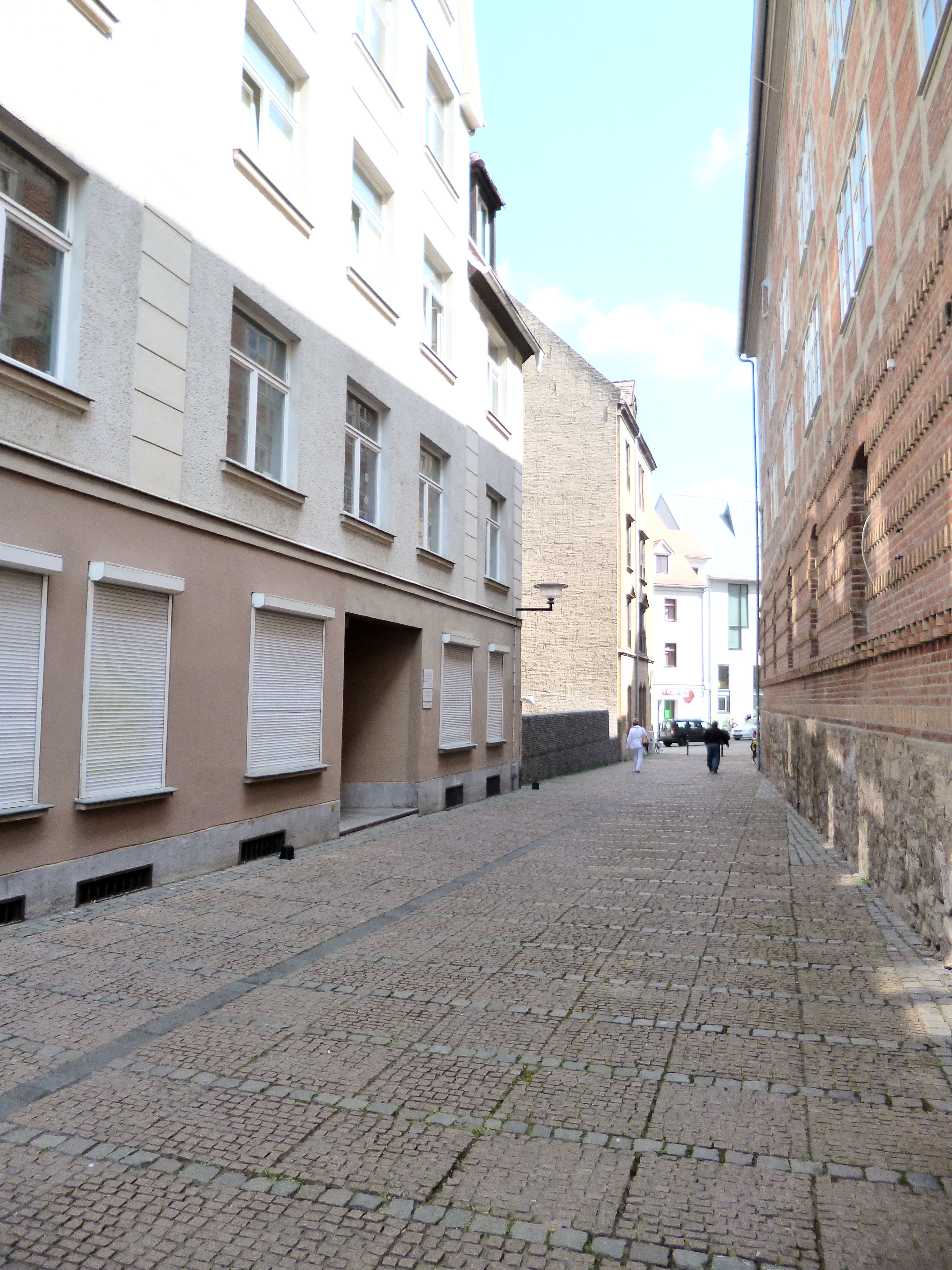 Lane Kanzleigasse, view to the Kleine Ulrichstrasse, Halle (Saale)